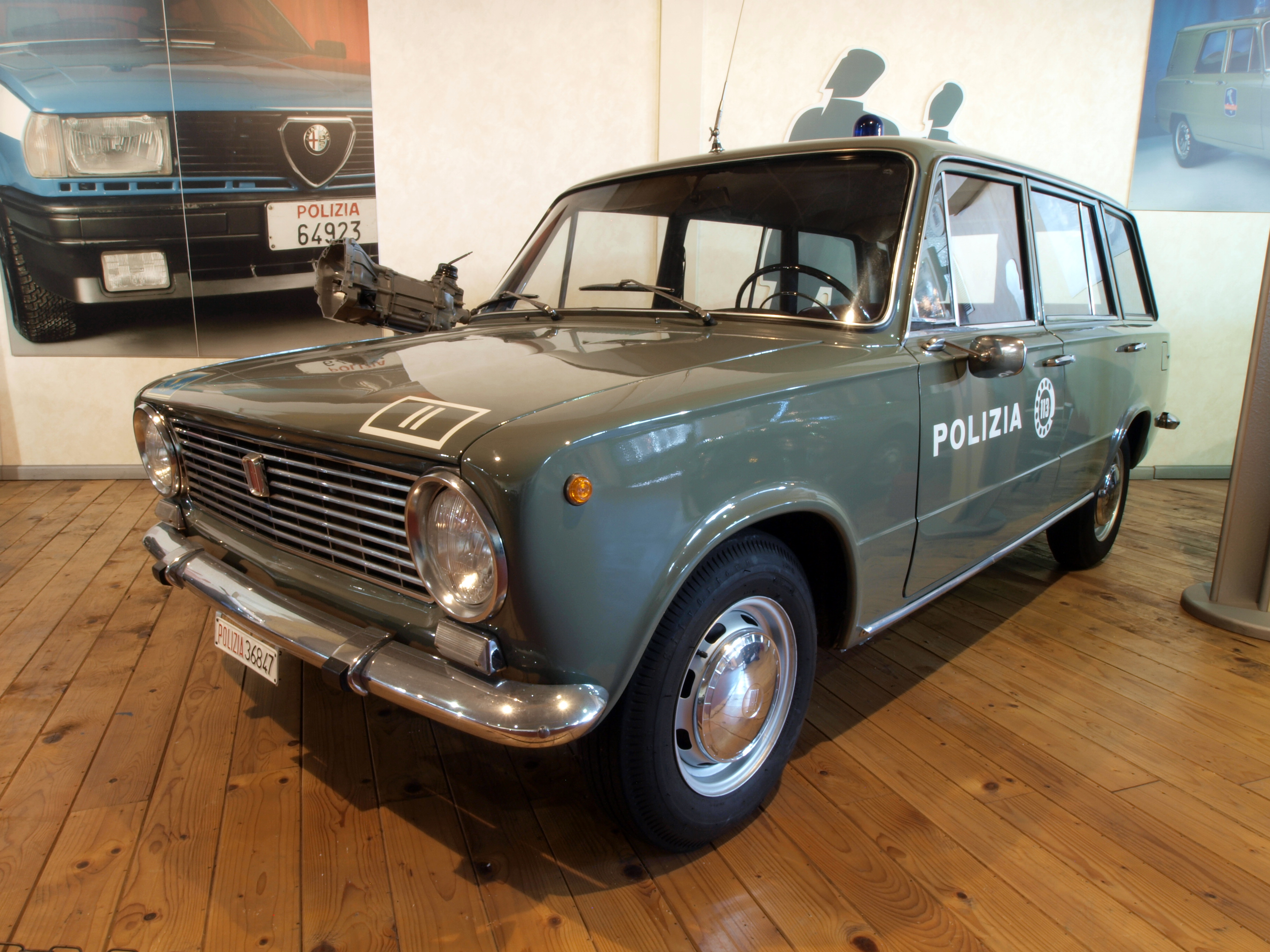 Photographed at Rome, Italy.